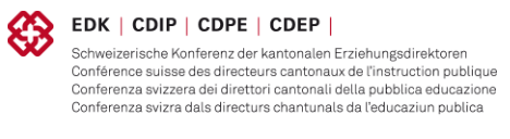 Logo EDK Switzerland